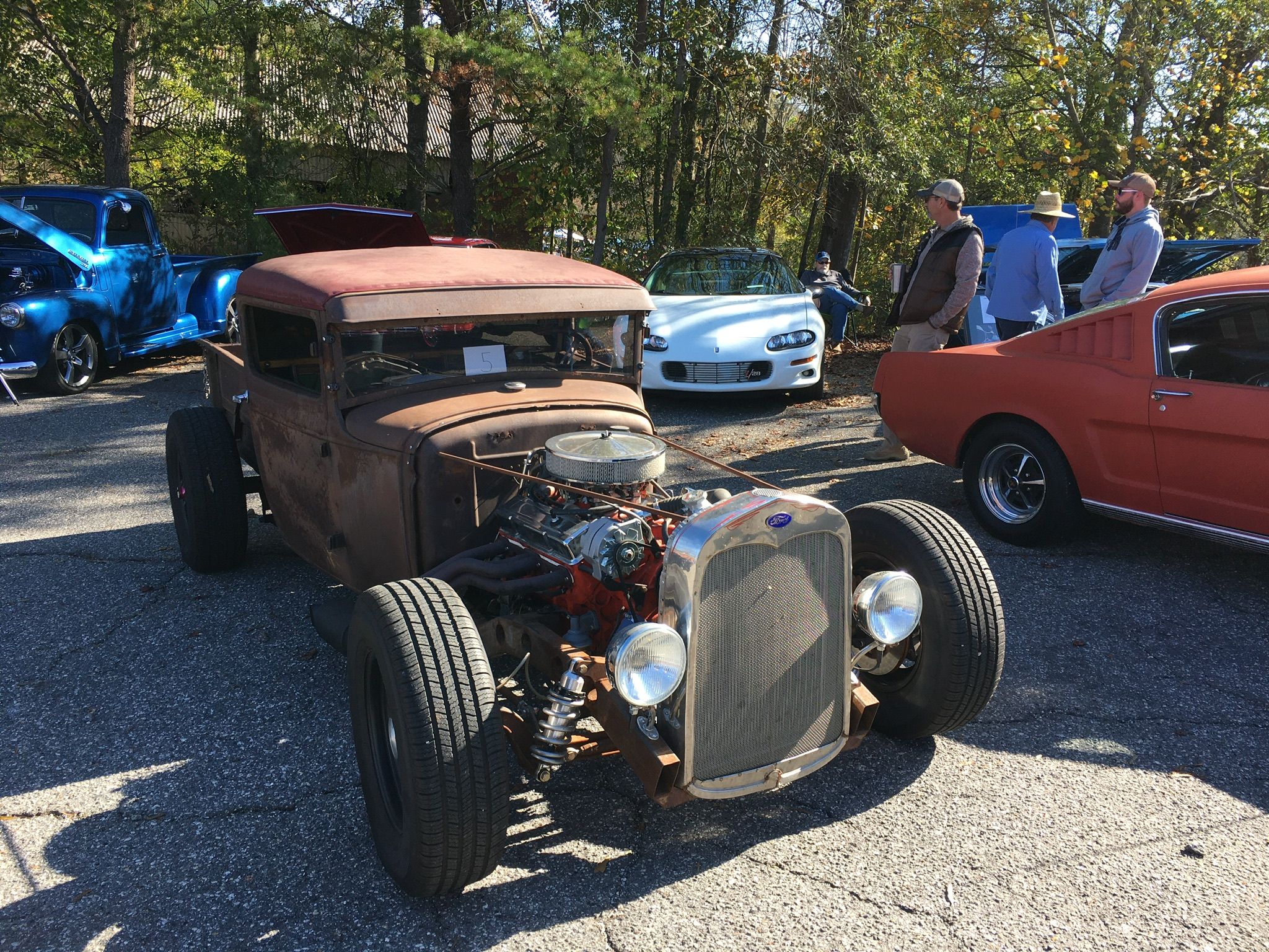 front view of a Ford rat rod